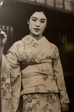 Onsen geisha Matsuei, who Yasunari Kawabata met in 1934 and upon whom he based one of his main character in the novel Yuki Guni (Snow Country). Photographed around 1934 presumably at the onsen inn Yukiguni no Yado Takahan in Yuzawa, Japan.